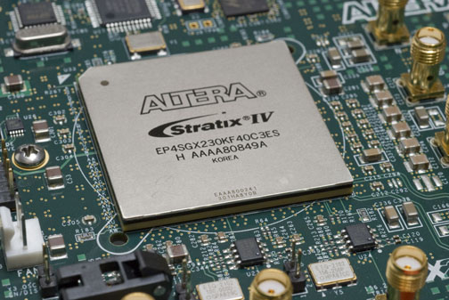 Altera Stratix IV EP4SGX230 FPGA on a PCB